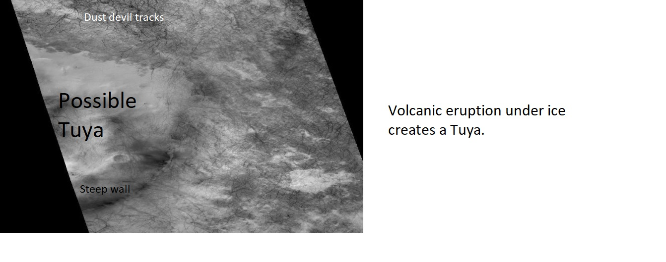 Labeled picture of a possible Tuya (volcano that erupted under ice), as seen by CTX